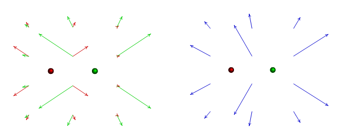 Campos produzidos por duas cargas de 4 nC e 9 nC em alguns pontos (lado